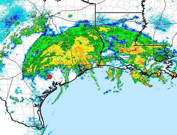 Radar image of Tropical Storm Harvey at 21:08UTC (4:08PM CDT) on Sunday August 27, 2017, with clouds in Texas and North-West of the Mississippi River delta (rainfall potential high = red and yellow). The center of circulation at the time is marked with a red circle (approximately 27.0 N 97.0W) in the left of the image.